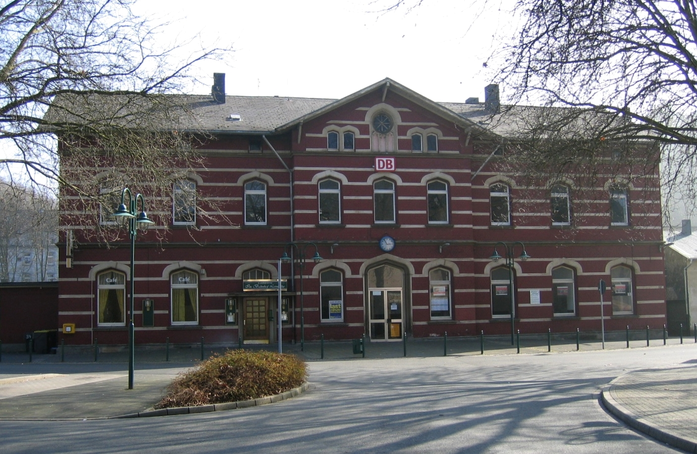 Description: Bahnhof Letmathe in Iserlohn. Source: selbst fotografiert Date: 19. März 2006 Author: Asio otus